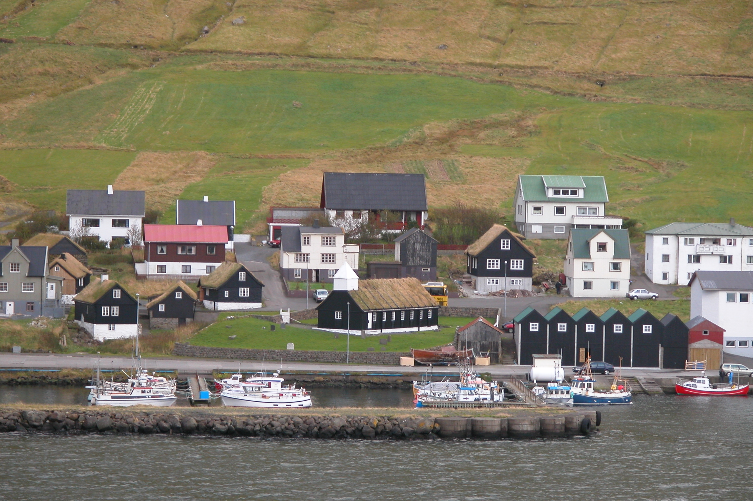 Norðragøta on Eysturoy, Faroe Islands.